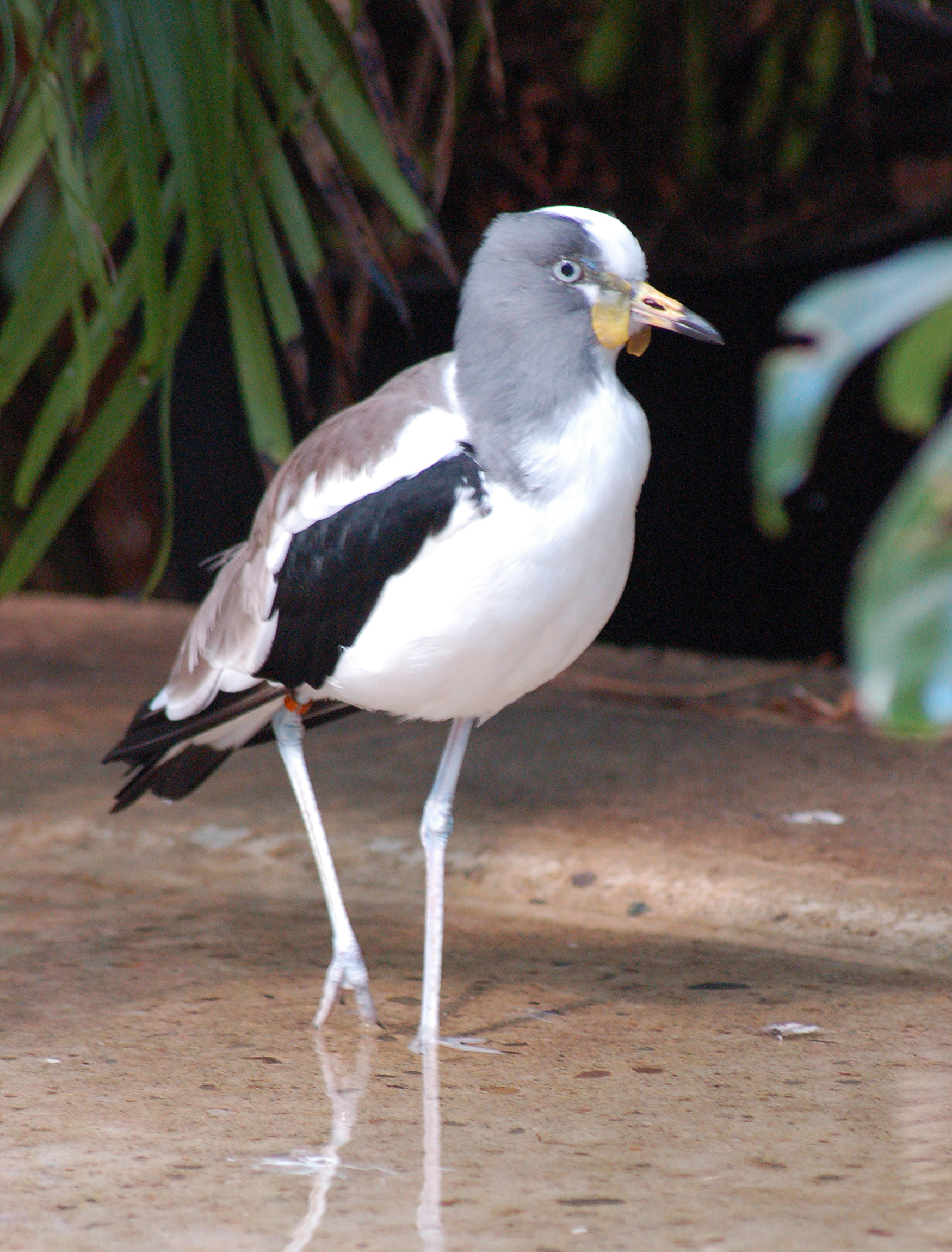 A photograph of an White-crowned Ploveren (Vanellus albiceps en ). Photo taken at the National Aviary.